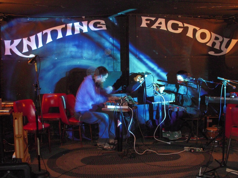 stage of the Knitting Factory (New York)